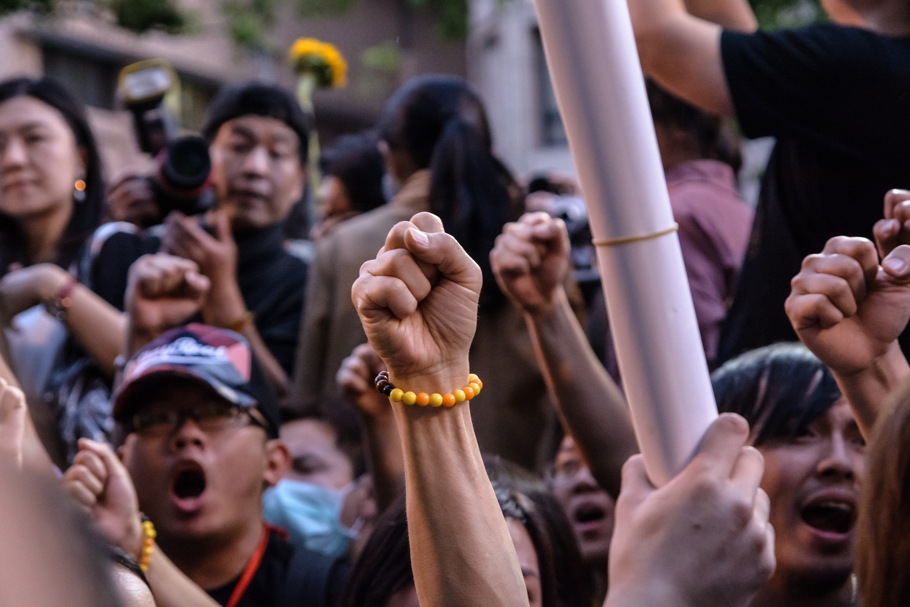 Students' mass protest in Taiwan to end occupation of legislature